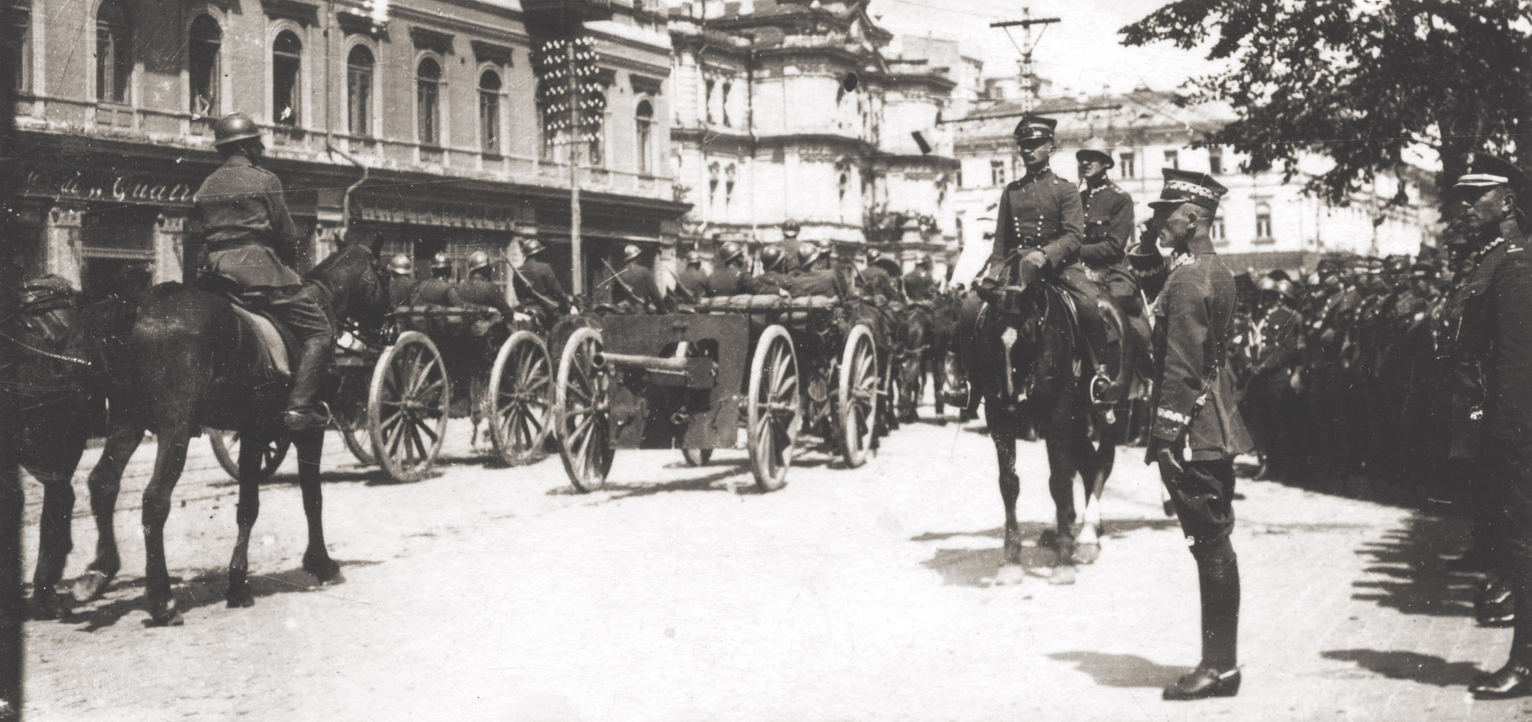 Edward Śmigły-Rydz saluting parade of Polish Army in Kiev, 8 th of May 1920, Kiev Offensive (1920). Khreshchatyk, main street of Kiev